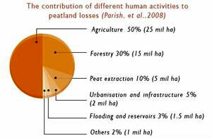 The contribution of different human activities to peatland losses.